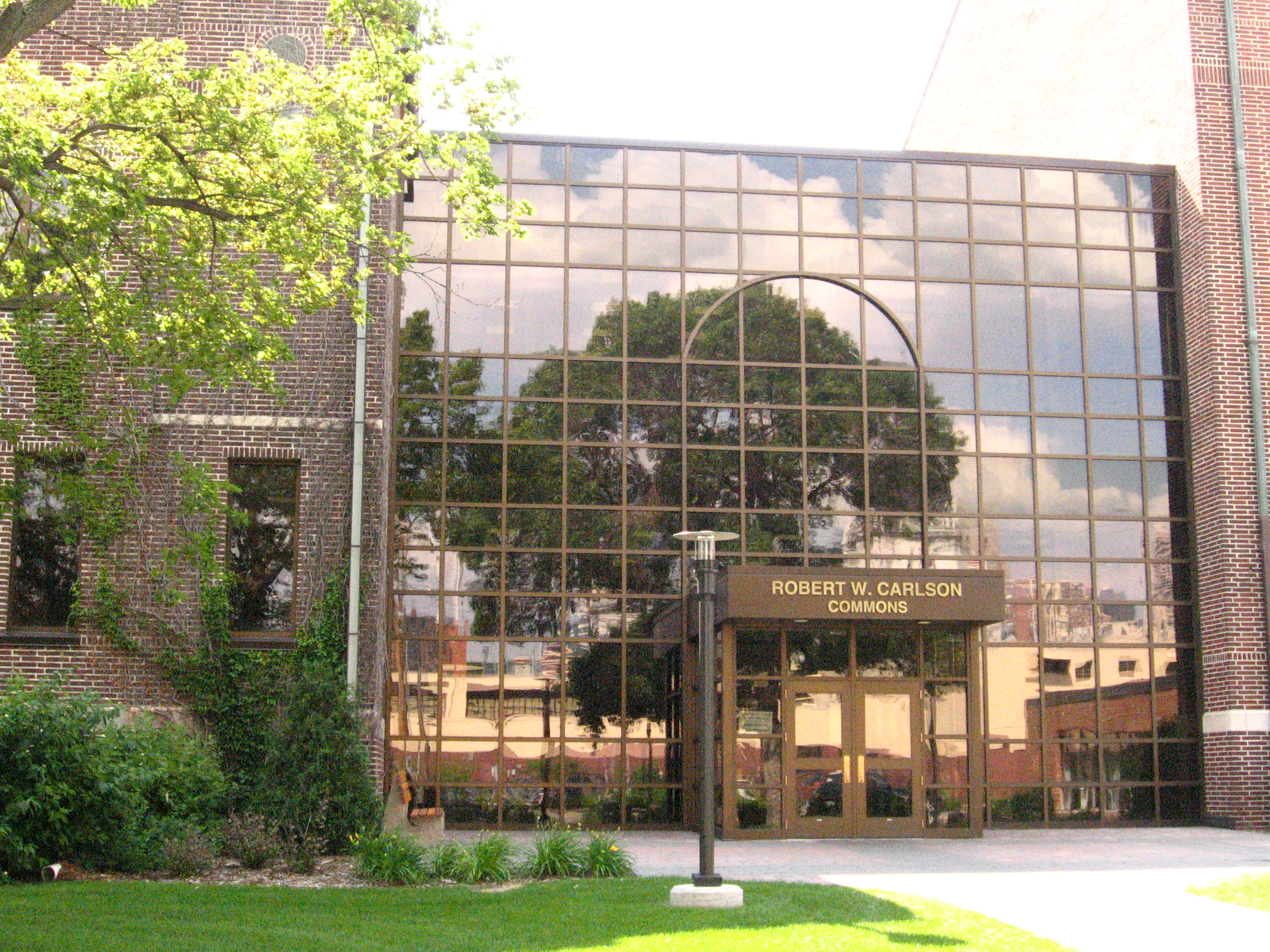 The Robert W. Carlson commons building of Dunwoody College of Technology, at their campus in Minneapolis.